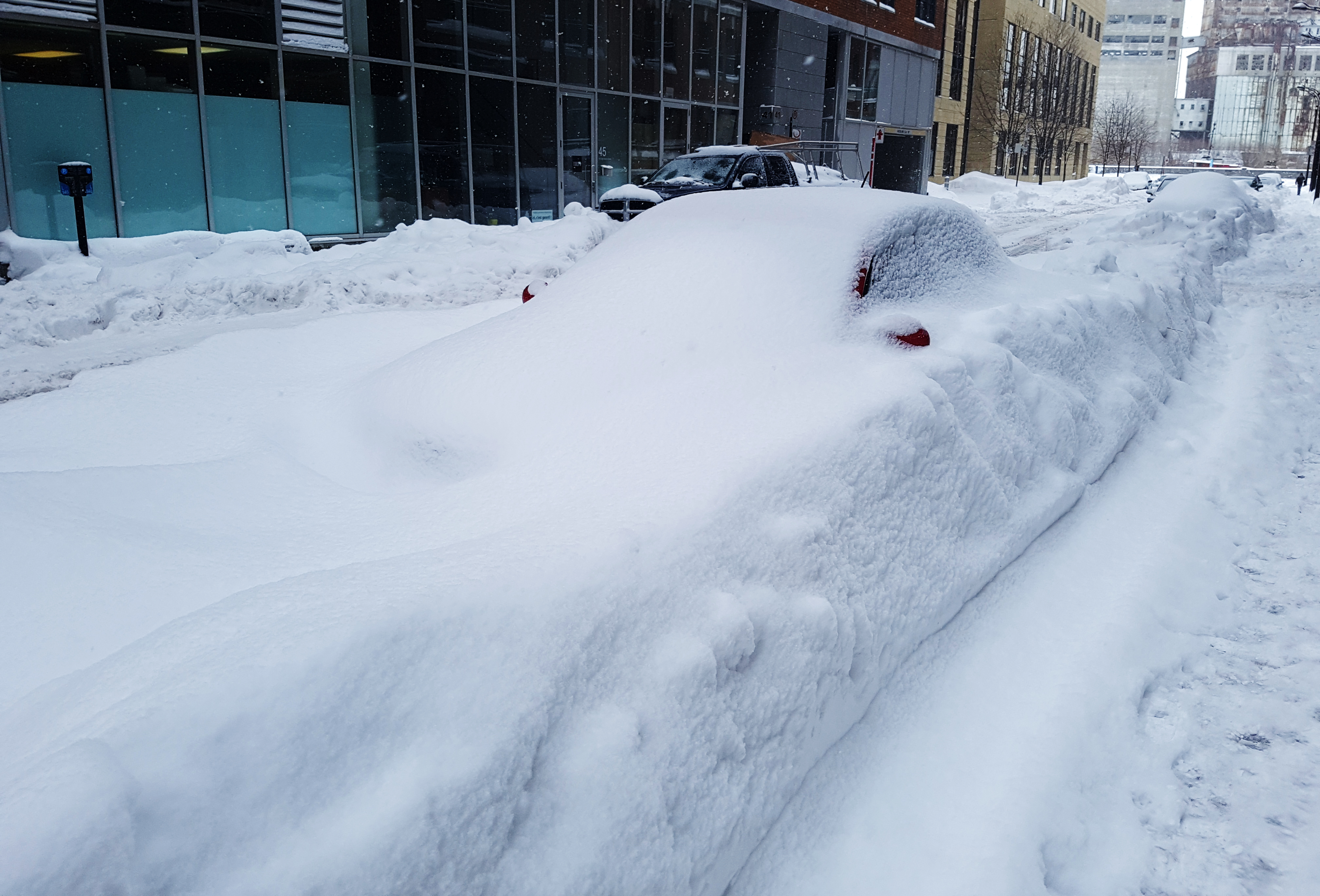 Car buried by snow in Montreal, Quebec, Canada on March 15, 2017 as a result of the March 2017 North American blizzard.